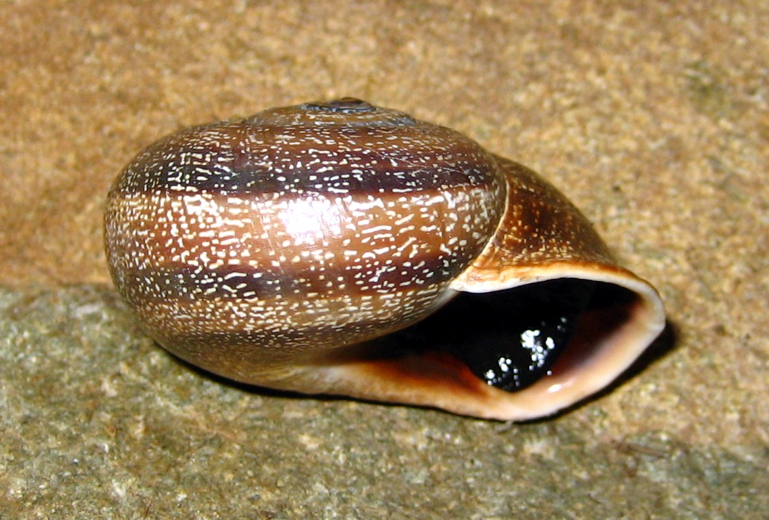 Otala punctata; Terrassa, Catalonia, Spain